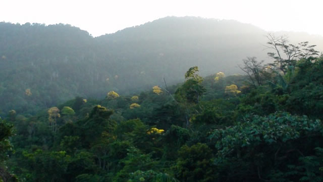 Blooming Yellow Poui trees dot the Northern Range in Trinidad and Tobago.